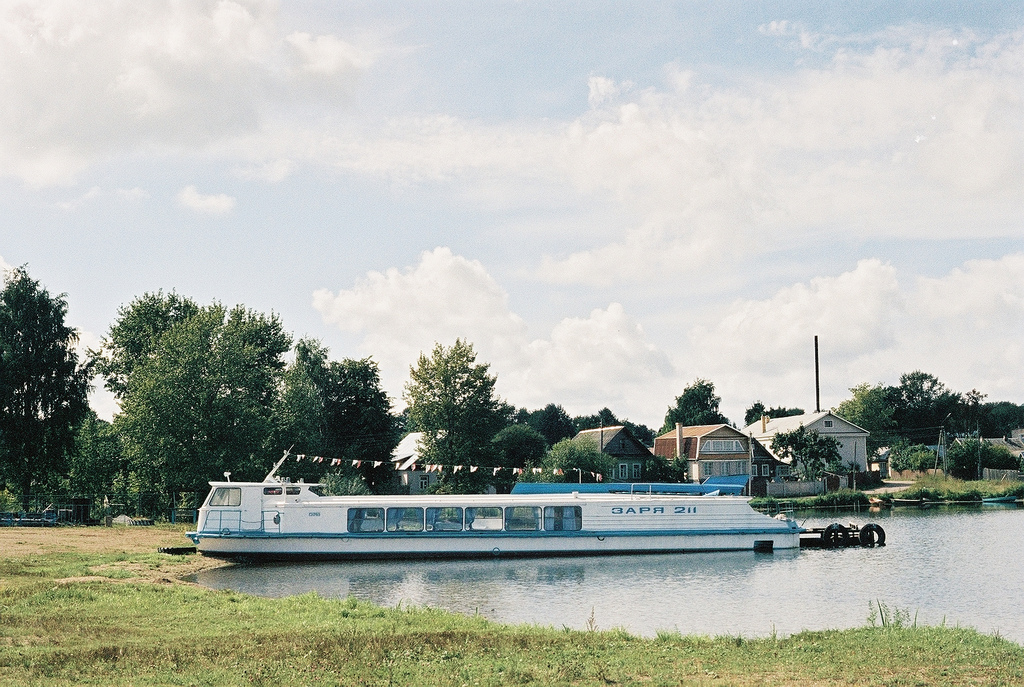 Type Zarya rivership, Valday